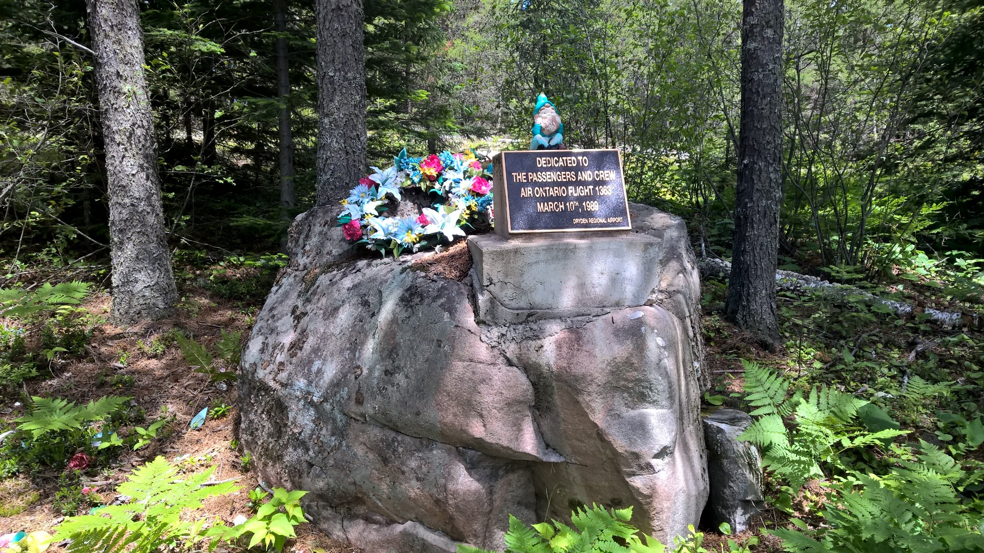 Memorial Site located on MacArthur Road